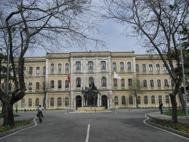 Istanbul University main building with statue of Atatürk